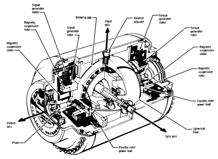 Diagram of the one of the three rate integrating gyroscopes used it the Apollo guidance system's IMU